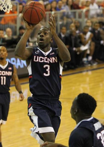 UCON vs Florida Gators 2015/01/03